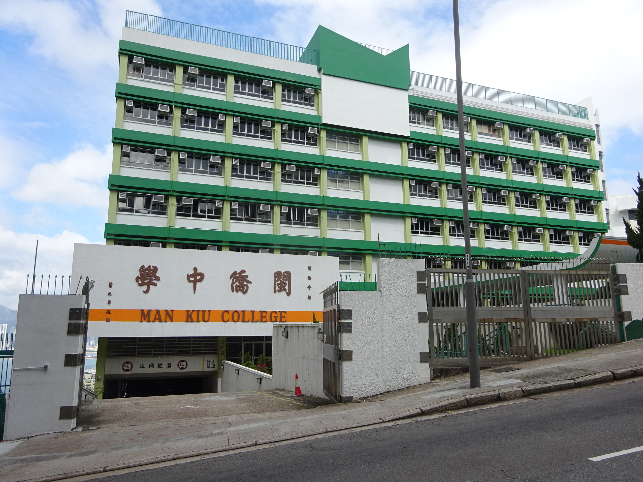 Man Kiu College, Cloud View Road, North Point Mid-Levels, Braemer Hill, Hong Kong